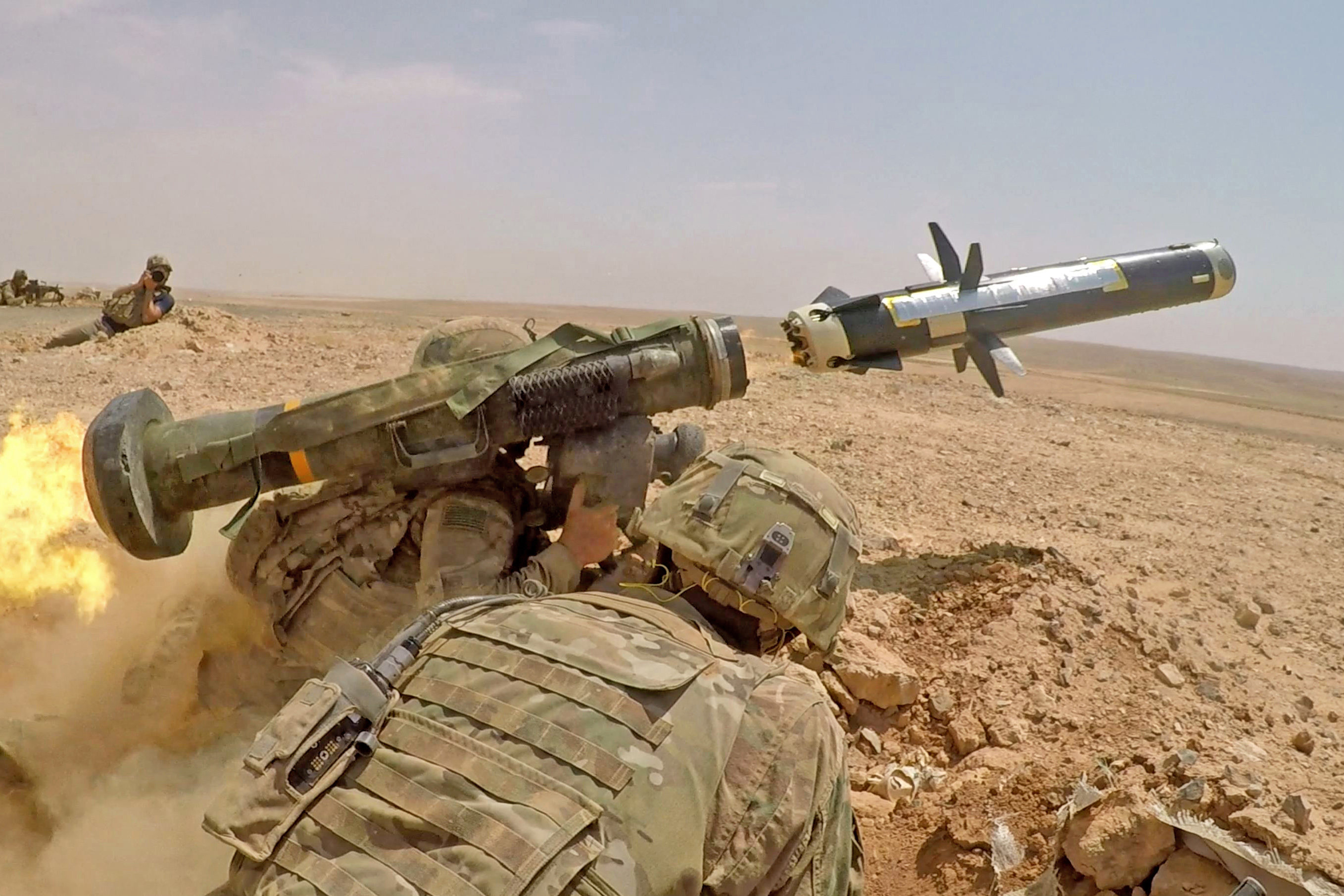 Infantry Soldiers with 1st Battalion, 8th Infantry Regiment, 3rd Armored Brigade Combat Team, 4th Infantry Division, fire an FGM-148 Javelin during a combined arms live fire exercise in Jordan on August 27, 2019, in support of Eager Lion. Eager Lion, U.S. Central Command's largest and most complex exercise, is an opportunity to integrate forces in a multilateral environment, operate in realistic terrain and strengthen military-to-military relationships. (U.S. Army photo by Sgt. Liane Hatch)